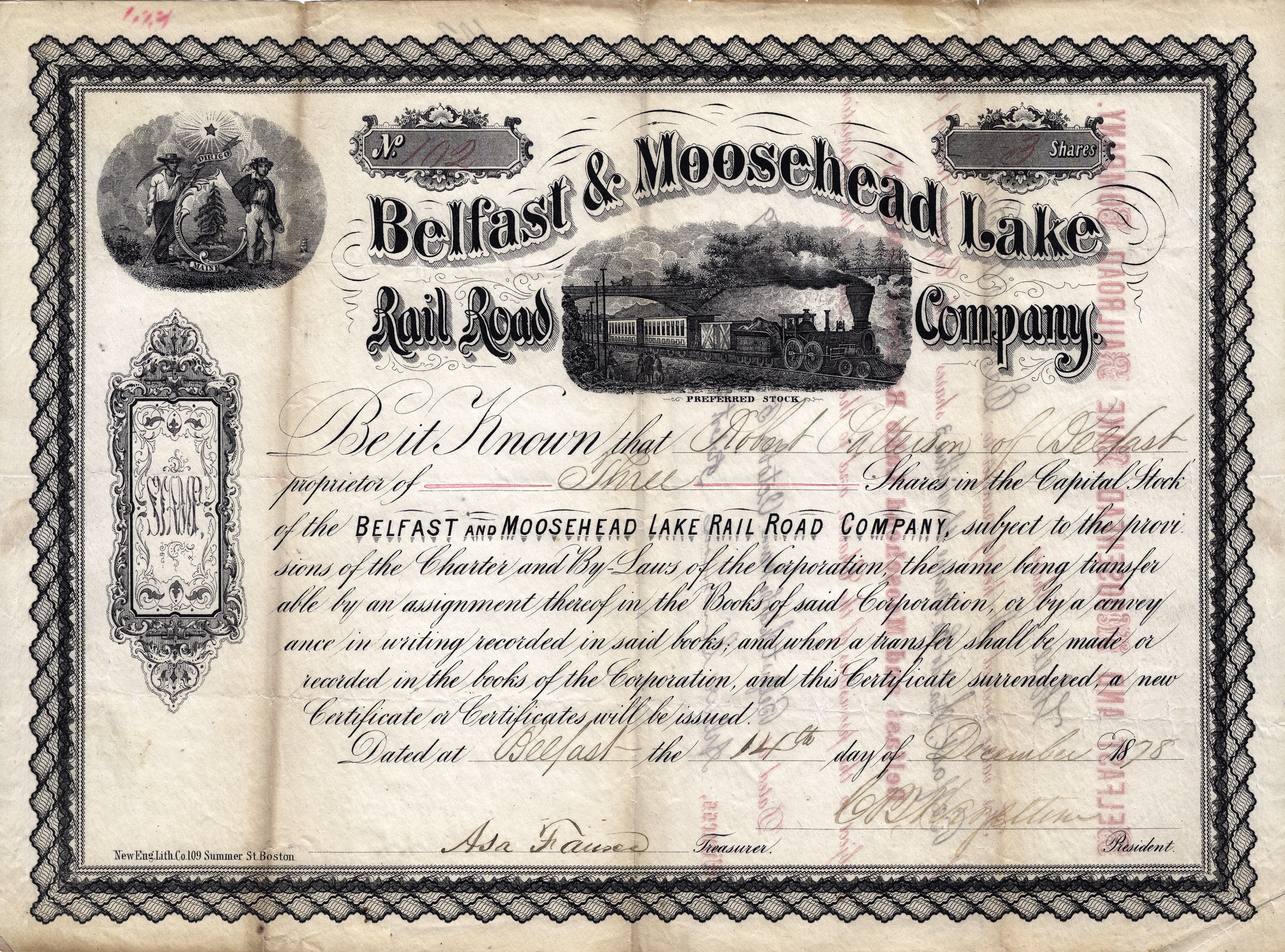 Certificate for three shares of the capital stock of the Belfast & Moosehead Lake Rail Road Company of Belfast, Maine dated December 14, 1878 (Cert #102) made to Robert Patterson of Belfast